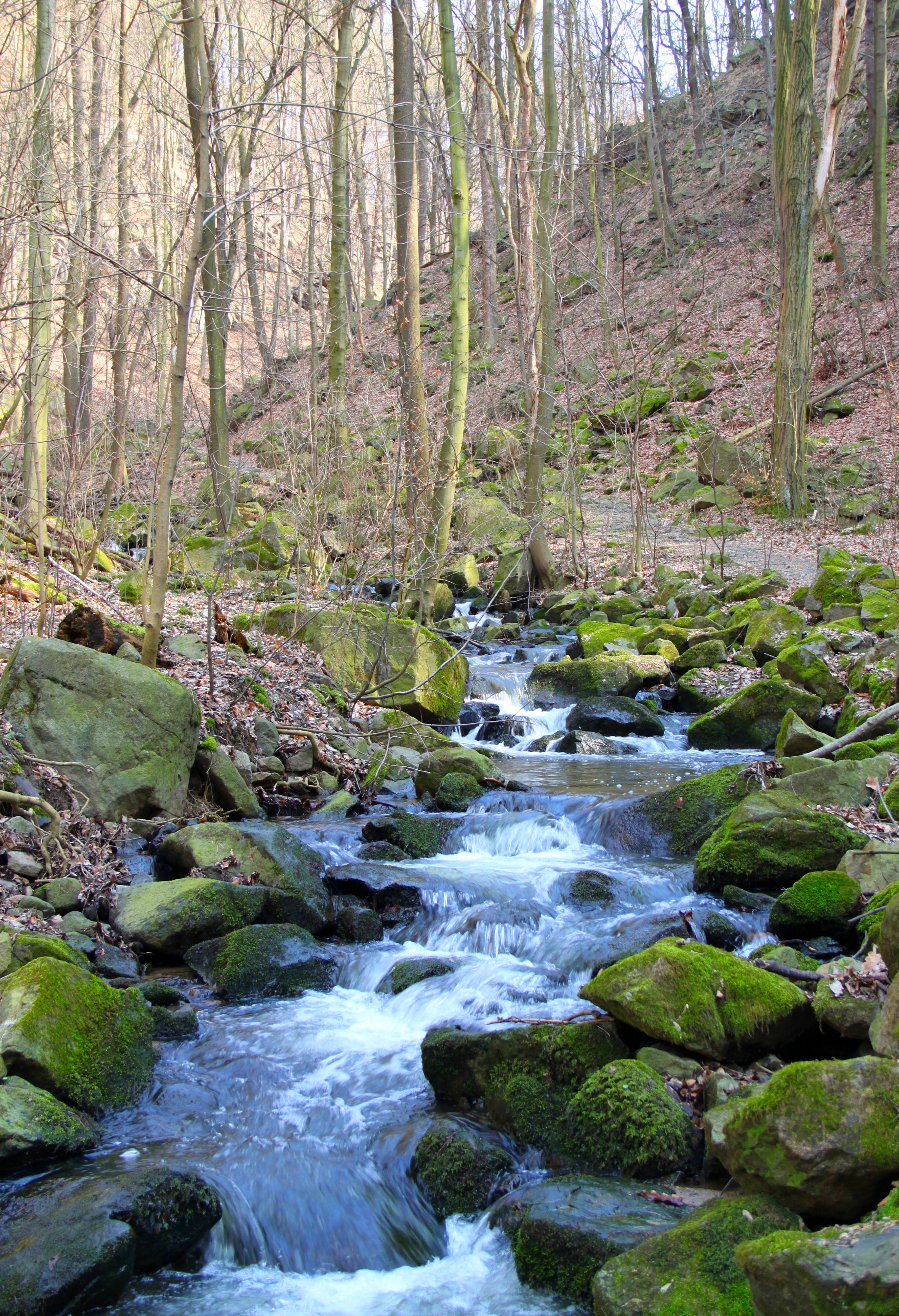 Kepp Valley (Keppgrund) near Dresden